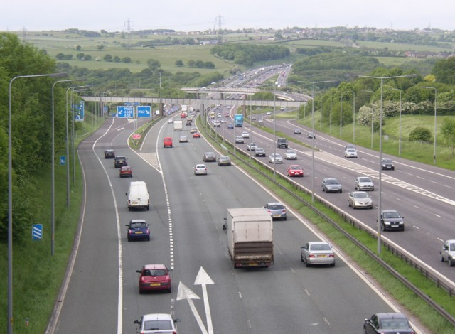 The M62 seen from the Whitechapel Road bridge, Cleckheaton. This a telephoto view of part of Junction 26, and the slip to the left leads to the Chain Bar roundabout and to the M606. The long bridge over the motorway carries Sustrans Route 66 on the a former railway line.